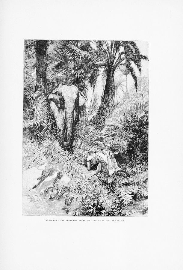 Mémoires d'un éléphant blanc. Illustrations by alfons Mucha book by Judith Gautier (1894)